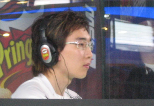 Kang Min in the MSL